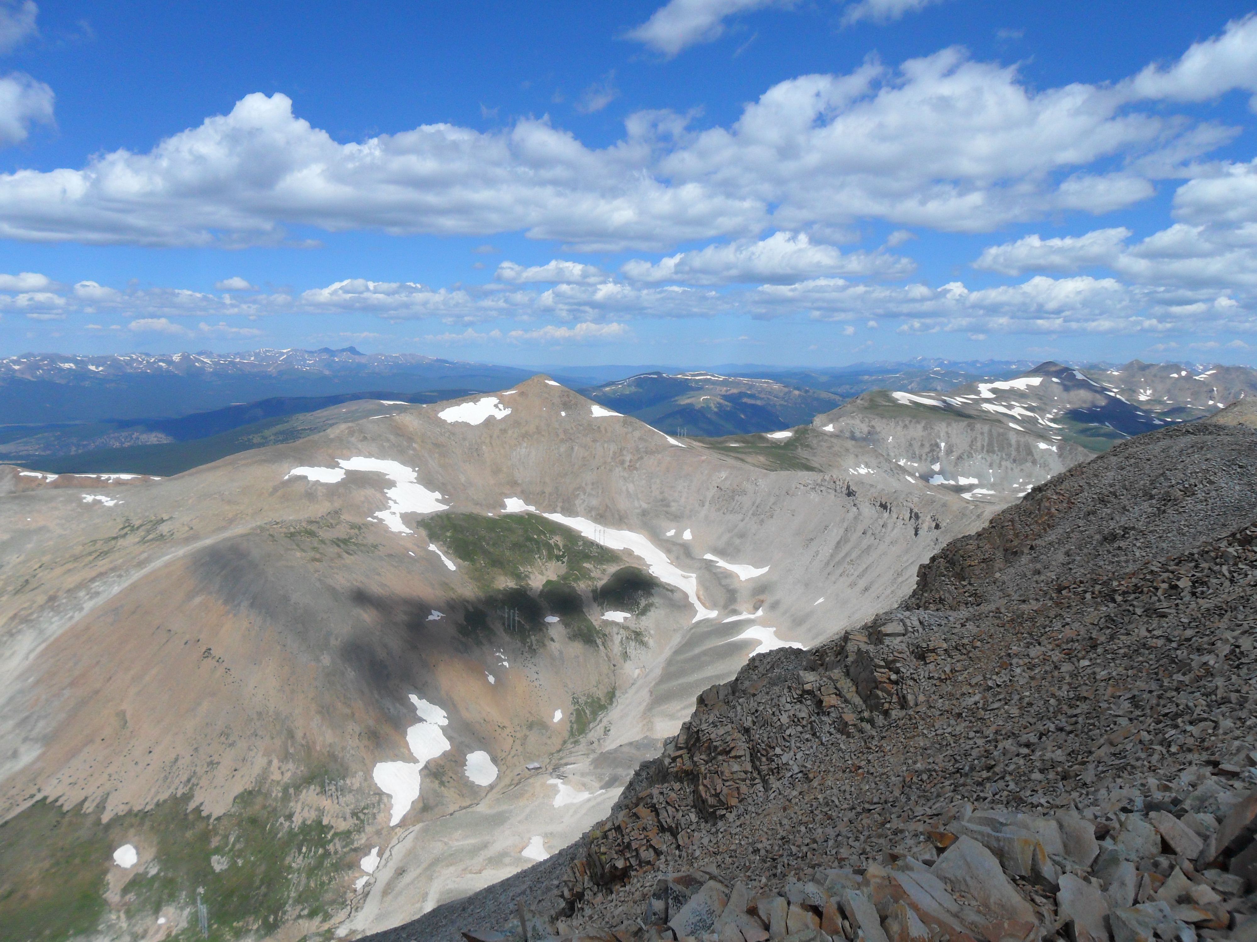 Colorado